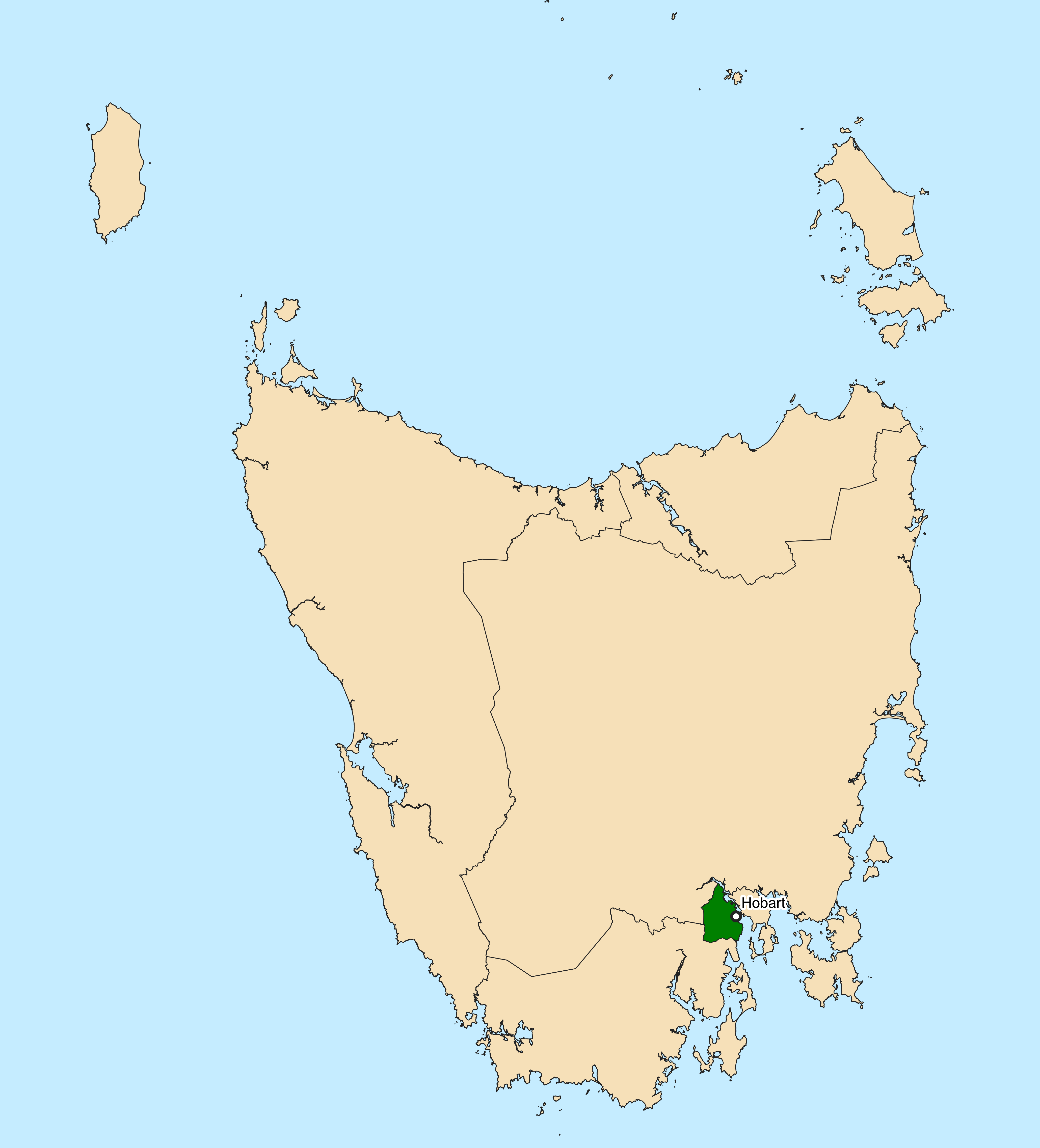 Location of the Australian federal electoral division of Clark (dark green) in Tasmania as of the 2019 Australian federal election. Incorporates or developed using Administrative Boundaries ©PSMA Australia Limited licensed by the Commonwealth of Australia under Creative Commons Attribution 4.0 International licence (CC BY 4.0).